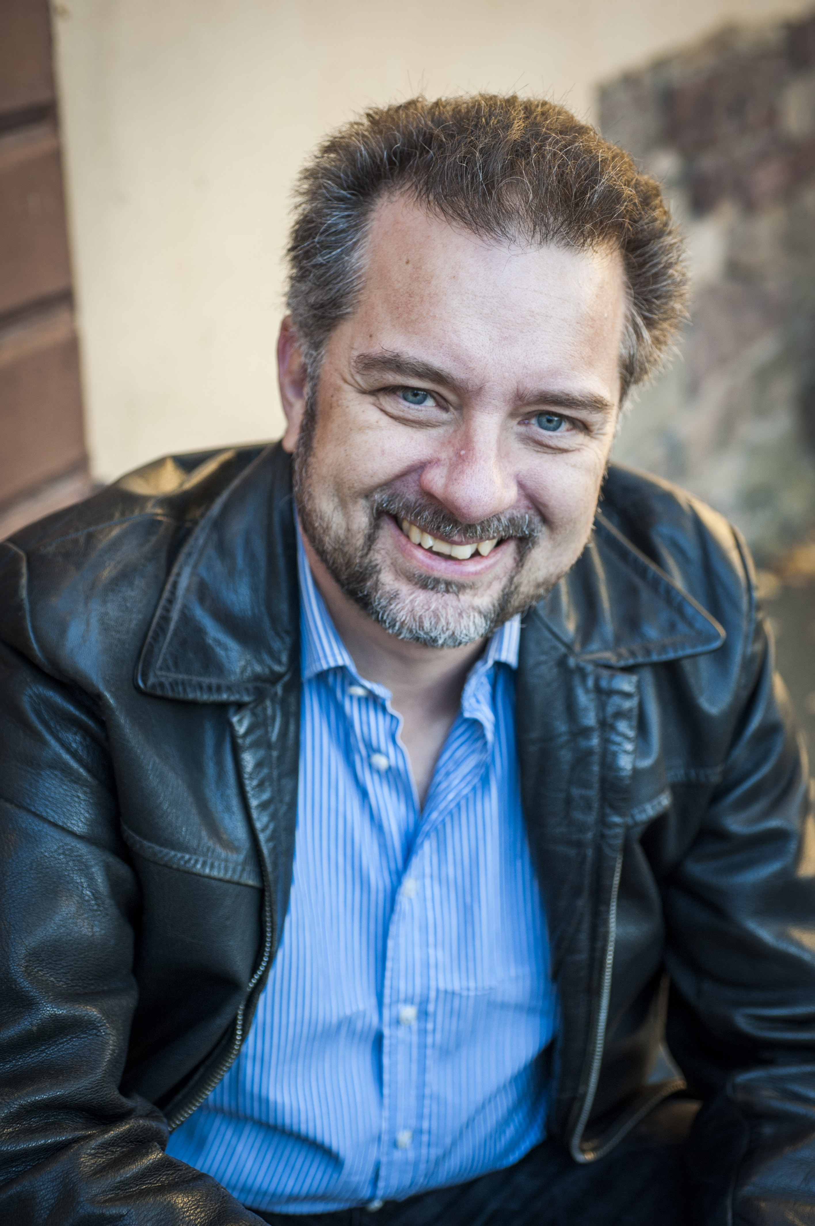 Swedish journalist and author David Qviström